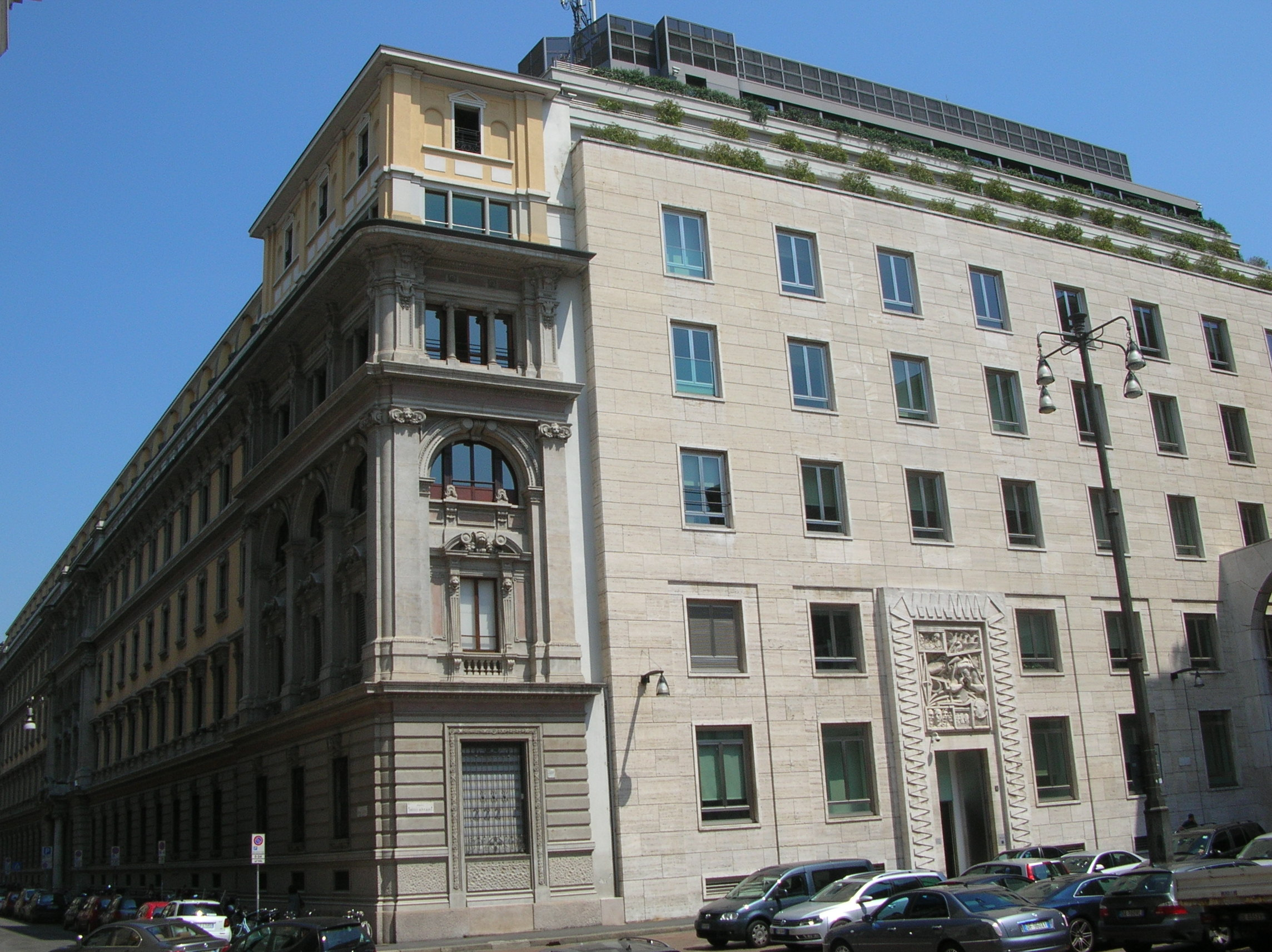 The building of Telecom Italia registered office, Piazza degli Affari 2, Milan, Italy